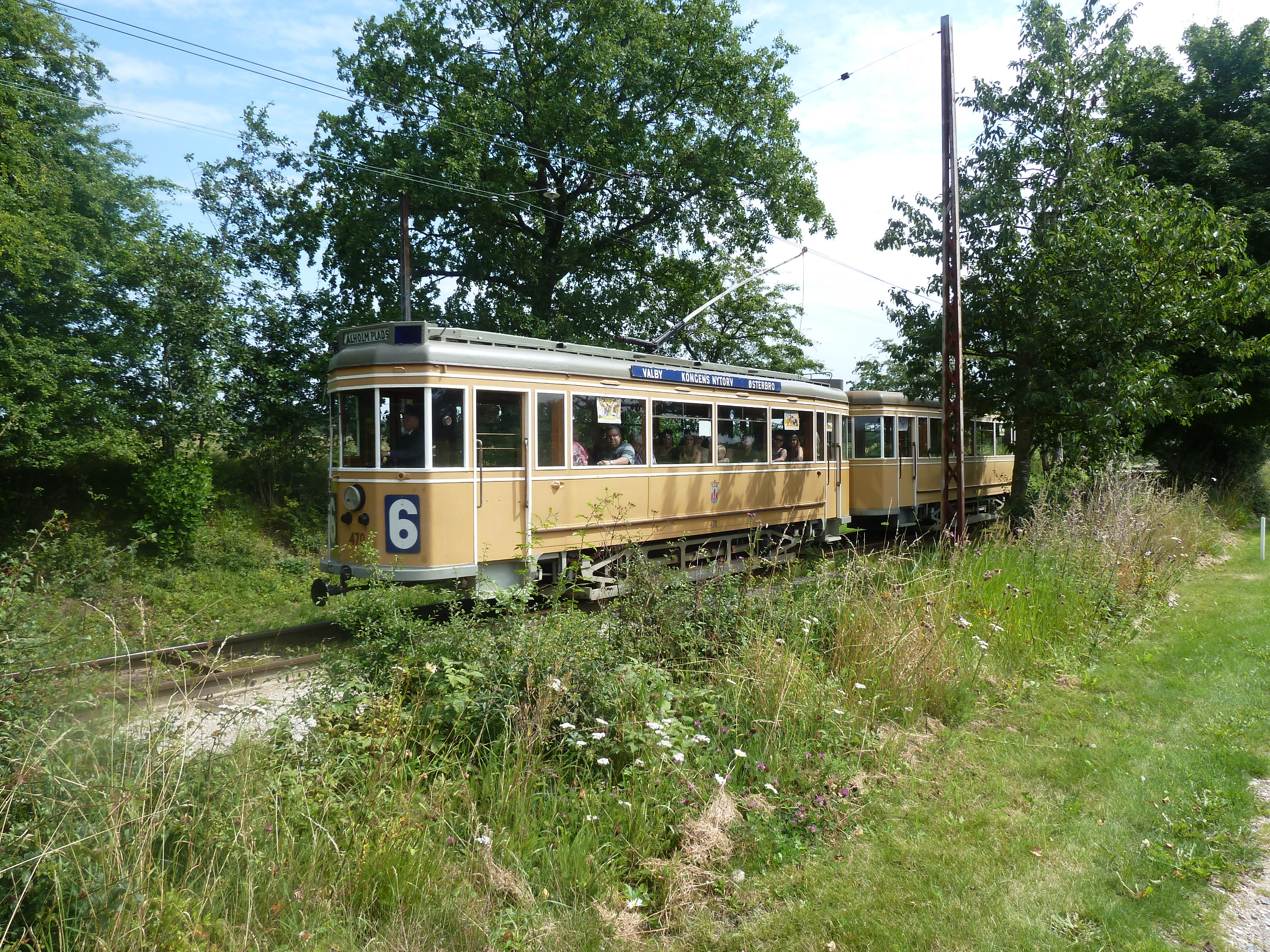 Old trams from Copenhagen KS 470+1065 between Tobaksmarken and Flemmingsminde at Sporvejsmuseet Skjoldenæsholm in Denmark.